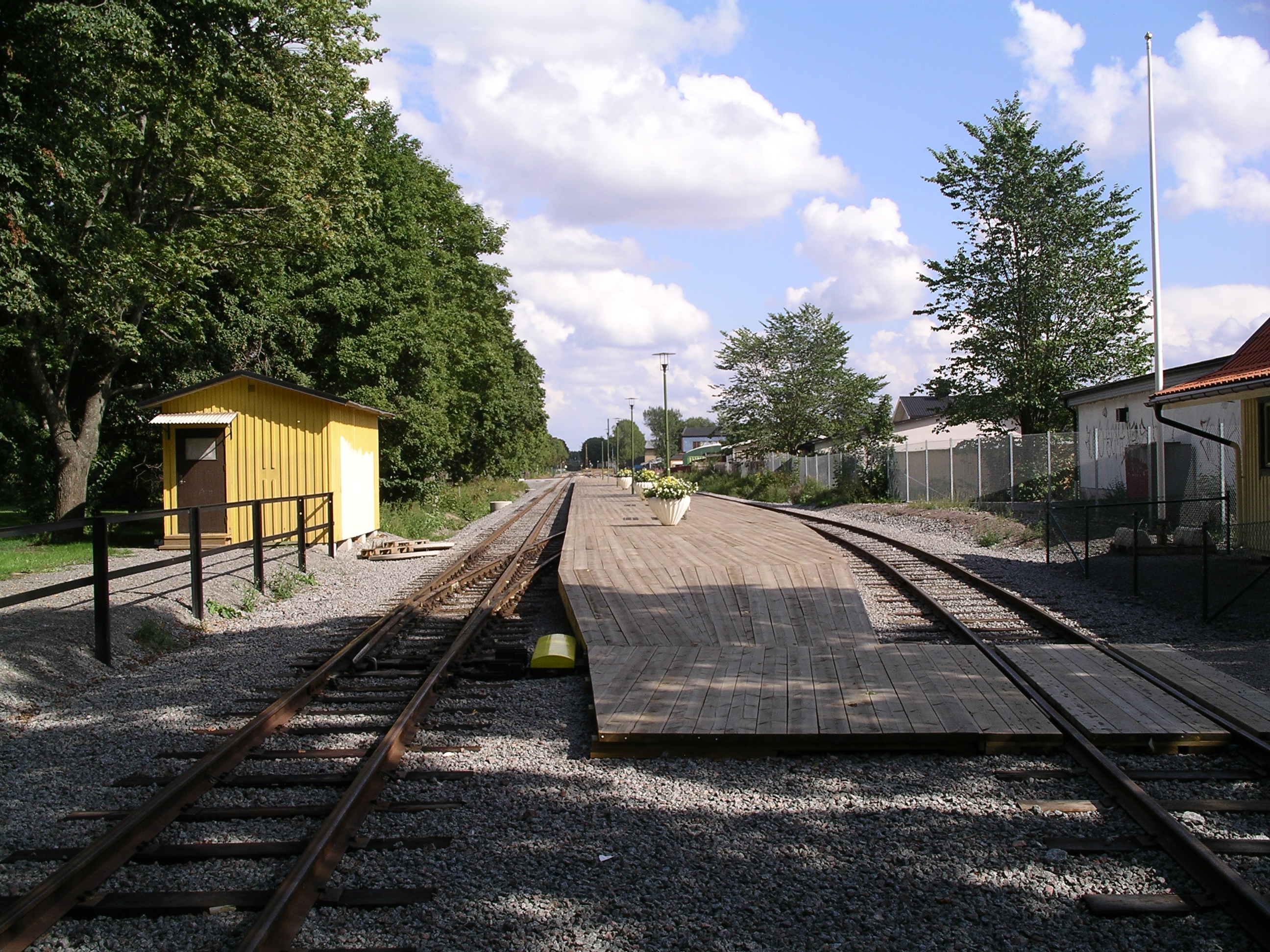 Platform at Uppsala Östra station 2006 at Upsala Lenna Jernväg in Uppsala, Sweden